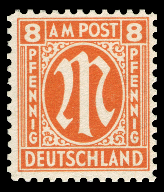 Definitive stamp series "M" Graphics by Roach Ausgabepreis: 8 Pfennig First Day of Issue / Erstausgabetag: 19. März 1945 Michel-Katalog-Nr: 5 (Alliierte Besetzung - Bizone)